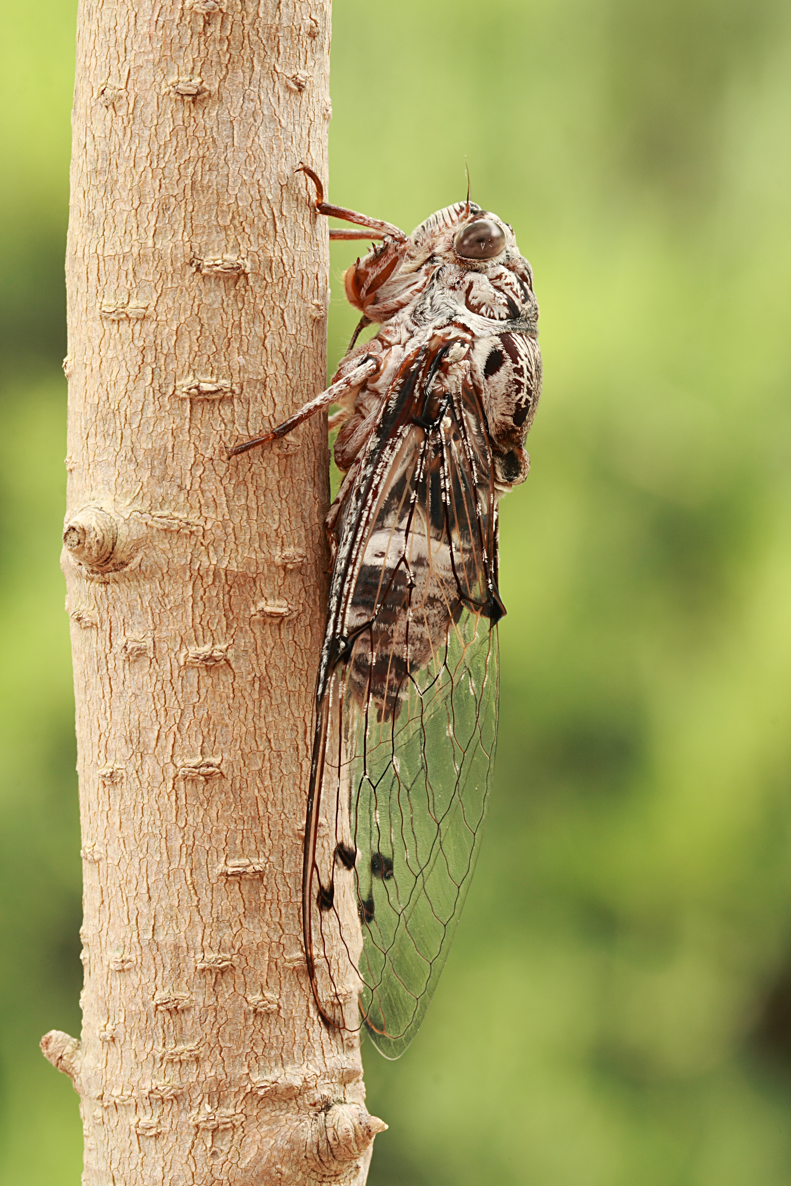 Floury Baker (Aleeta curvicosta) cicada (side-on) in Sydney, NSW, Australia.